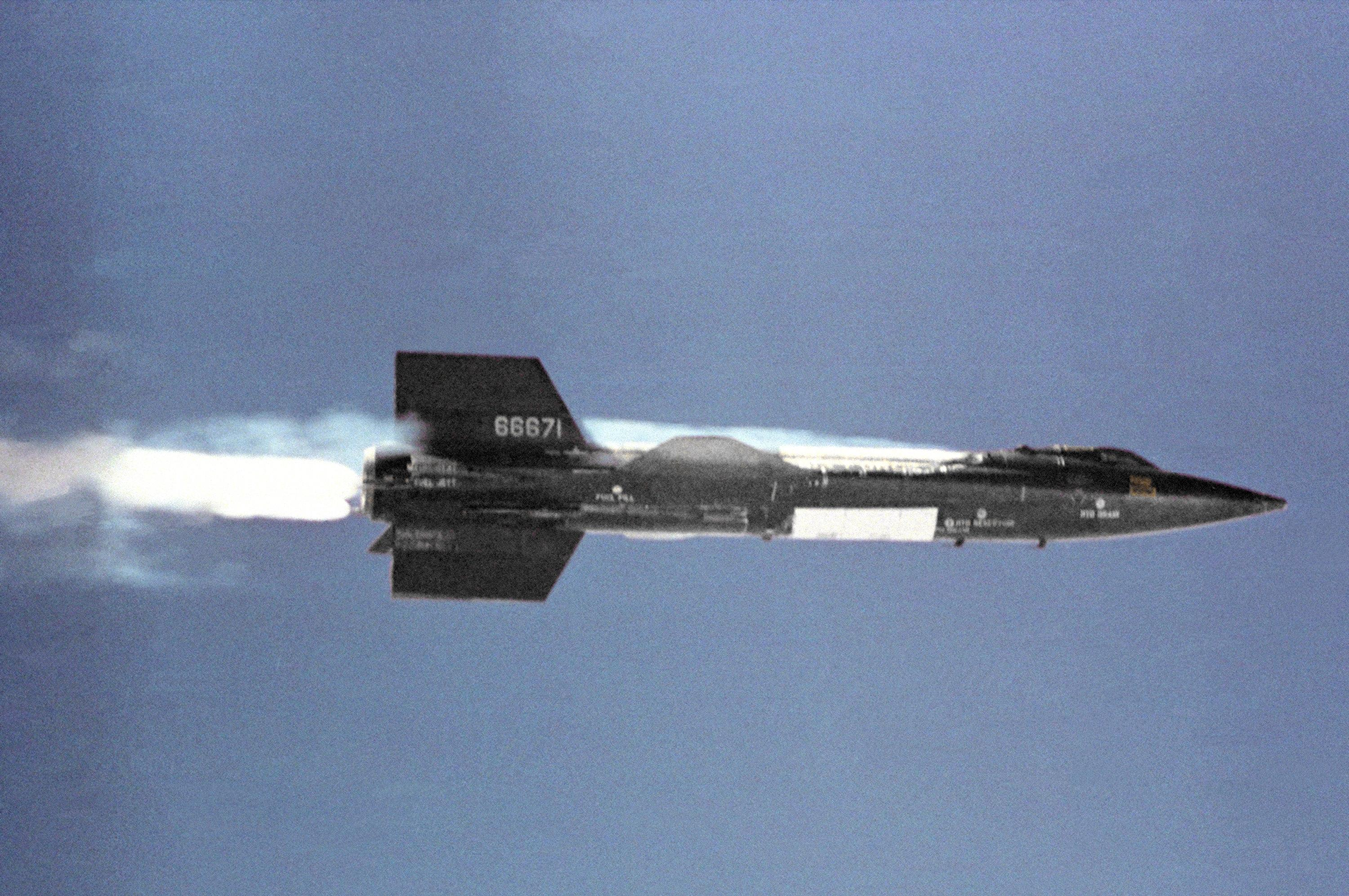 The X-15 #2 (56-6671) launches away from the B-52 mothership with its rocket engine ignited. The white patches near the middle of the ship are frost from the liquid oxygen used in the propulsion system, although very cold liquid nitrogen was also used to cool the payload bay, cockpit, windshields, and nose.